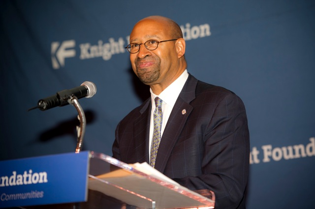 Photo by Susan Beard